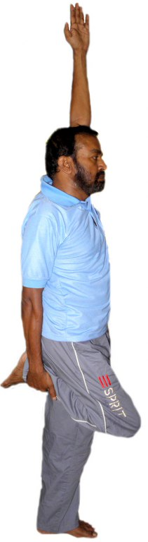 Balance Pose